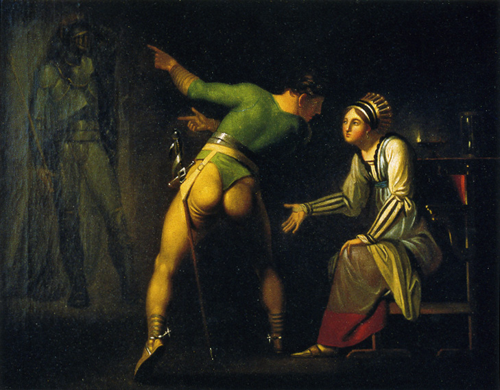 Hamlet Shows His Mother the Ghost of His Father